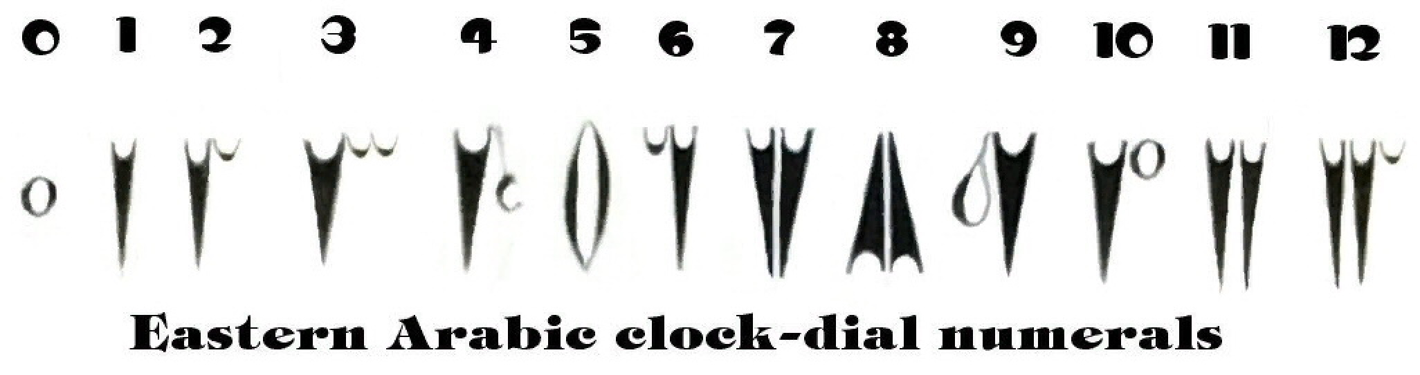 Toto-font Western Arabic numerals with Eastern Arabic numerals from a photodistorted clock face made undistorted and arranged in normal sequence by Adobe Photoshop by Carl Masthay, St. Louis, 2016